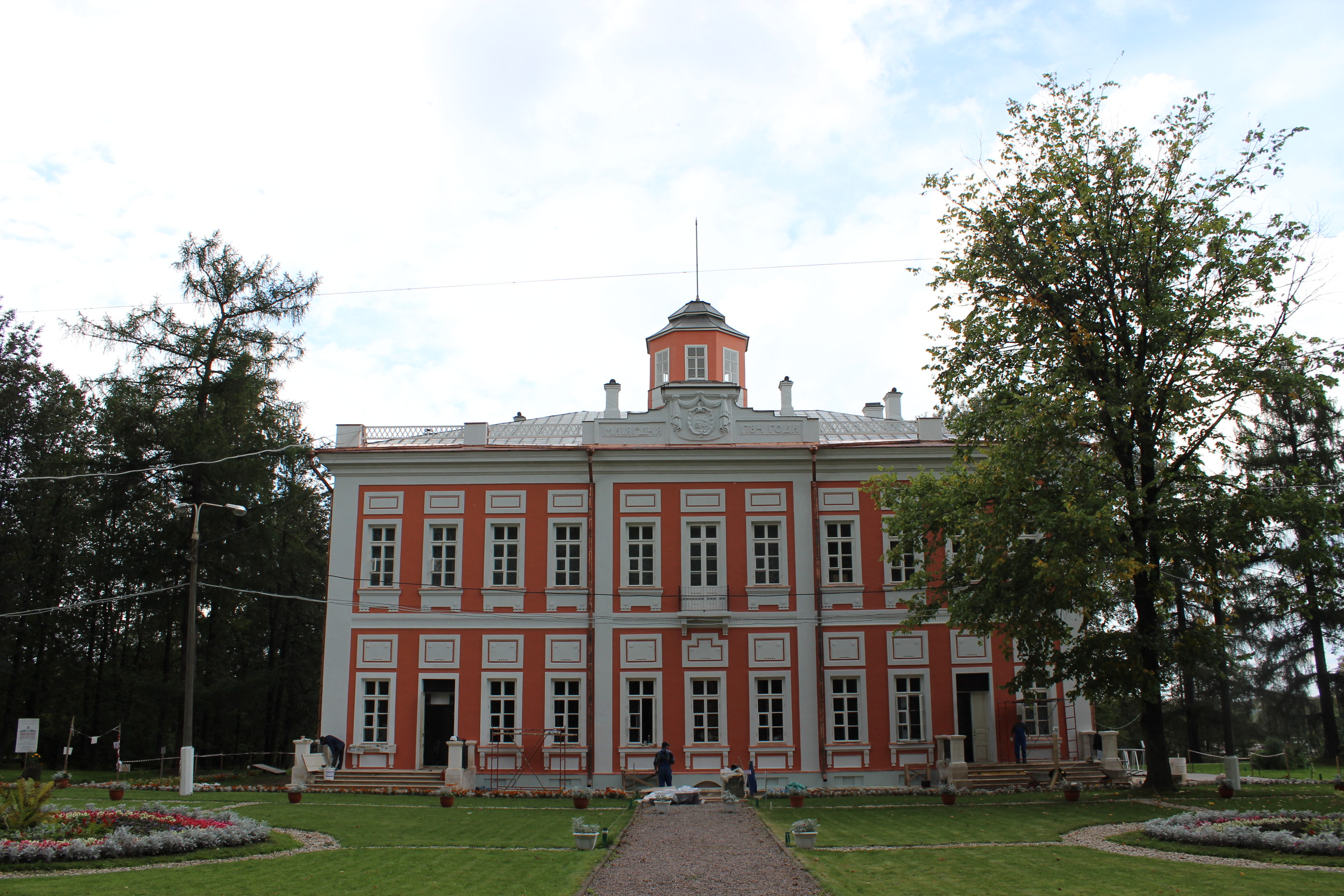 Manor of the Golitsyns in Bolshiye Viazemy